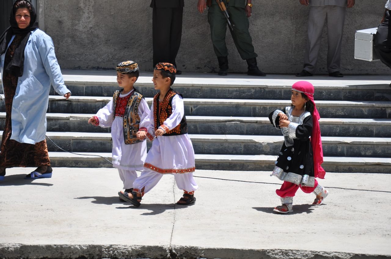 The kids dressed up in traditional clothes for the event.